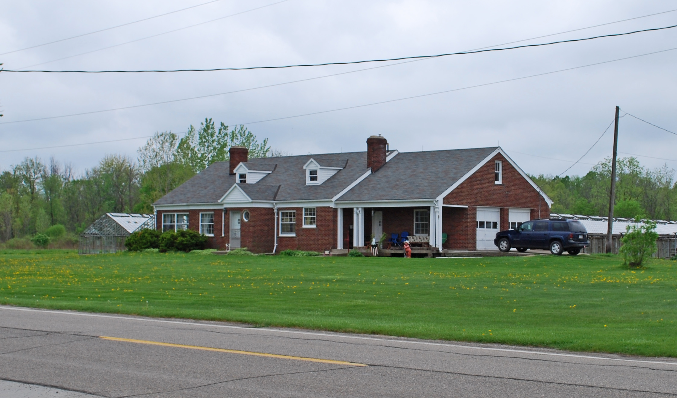 John And Edna Trusdell Fischer Farmstead in Canton MI